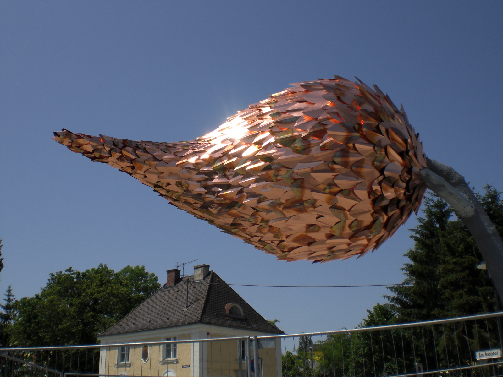 art at the S-Bahn station in Unterföhring, Germany